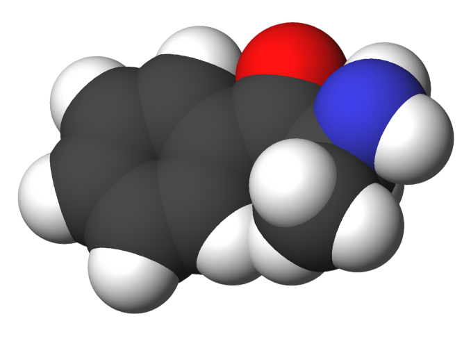 Cathinone